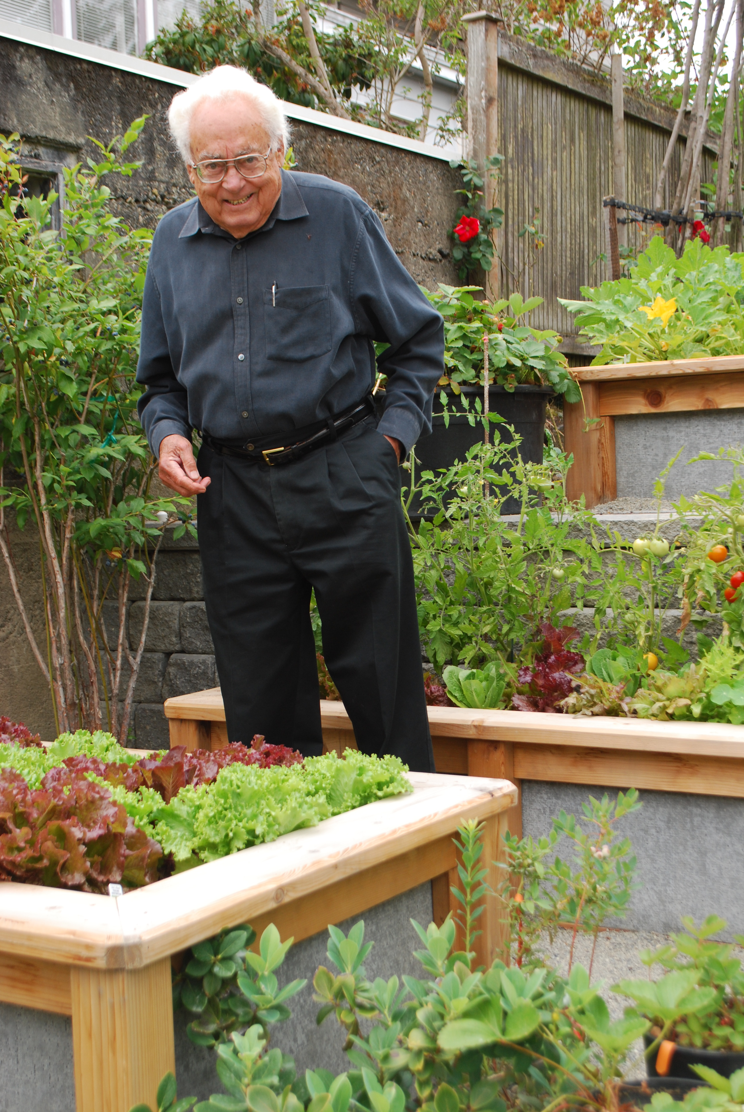 RH in garden